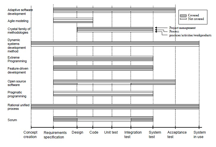 It shows that agile methods are focused on different aspects of the software development life-cycle.